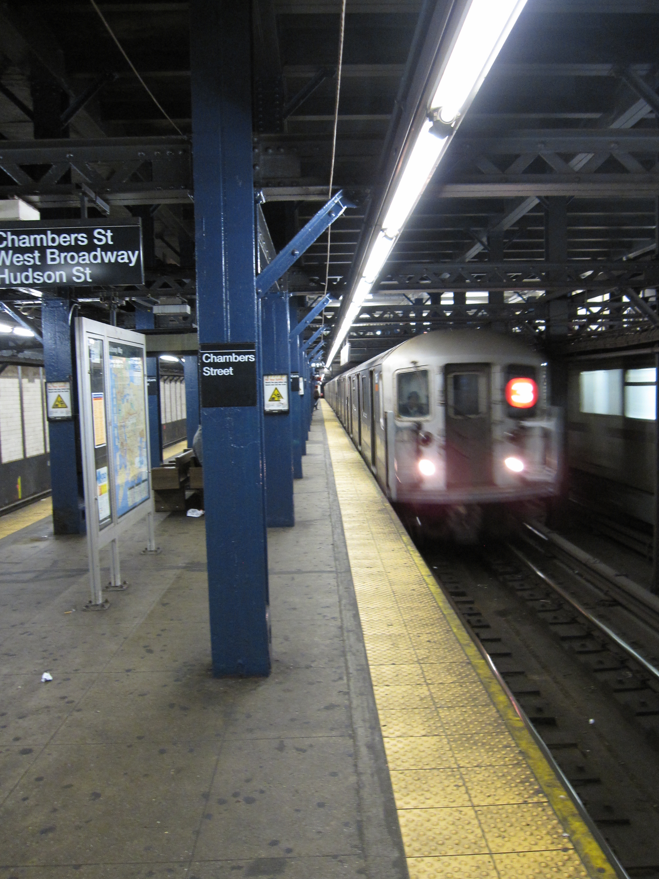 Chambers Street (IRT Broadway – Seventh Avenue Line)